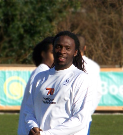 Evander Sno during a training of the Netherlands national under-21 football team in 2008